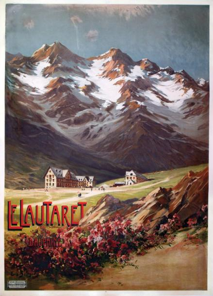 Poster Le Lautaret, Dauphiné.